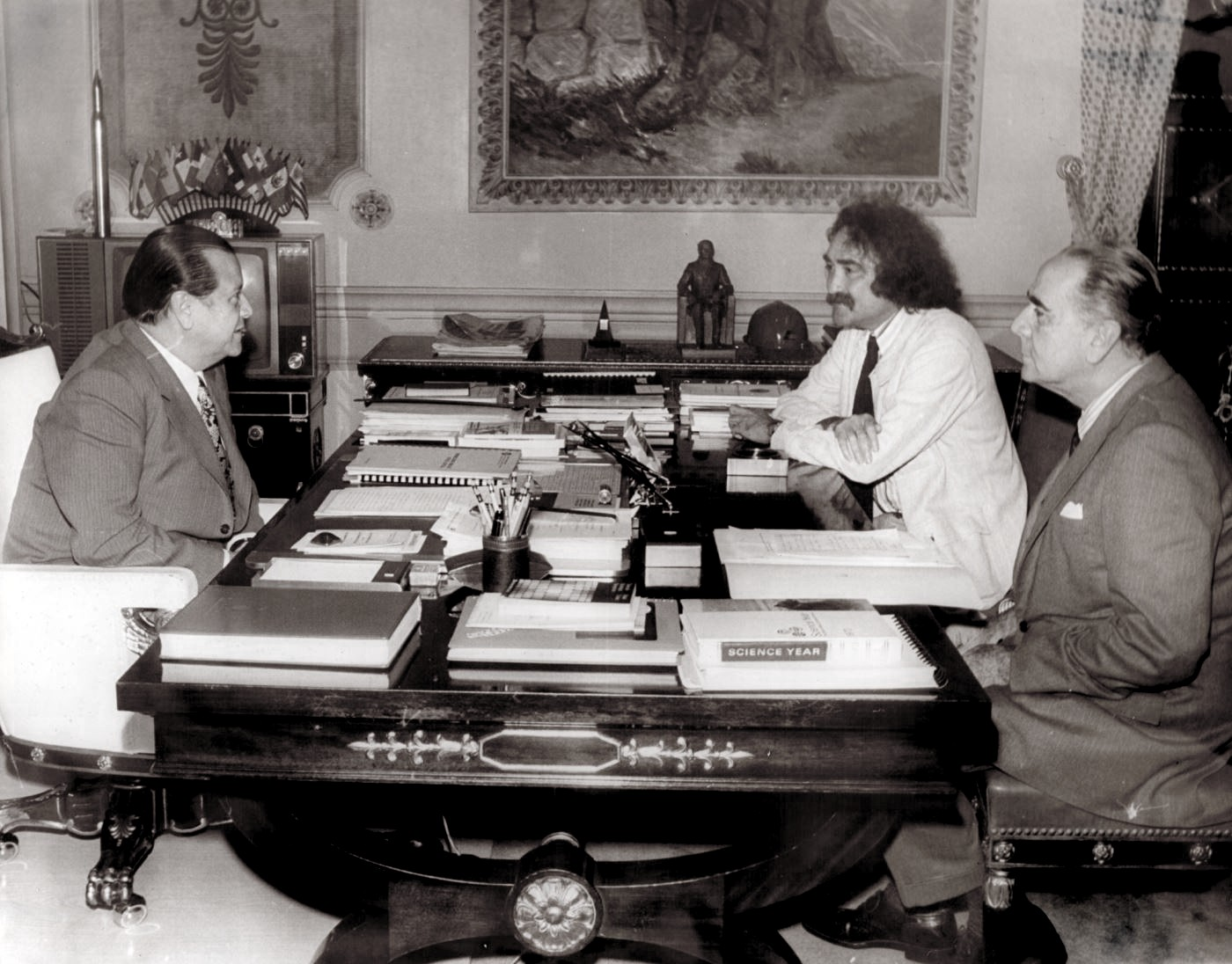 Venezuelan president Rafael Caldera, along with kinetic artist Jesús Soto and art critic and historian Alfredo Boulton.